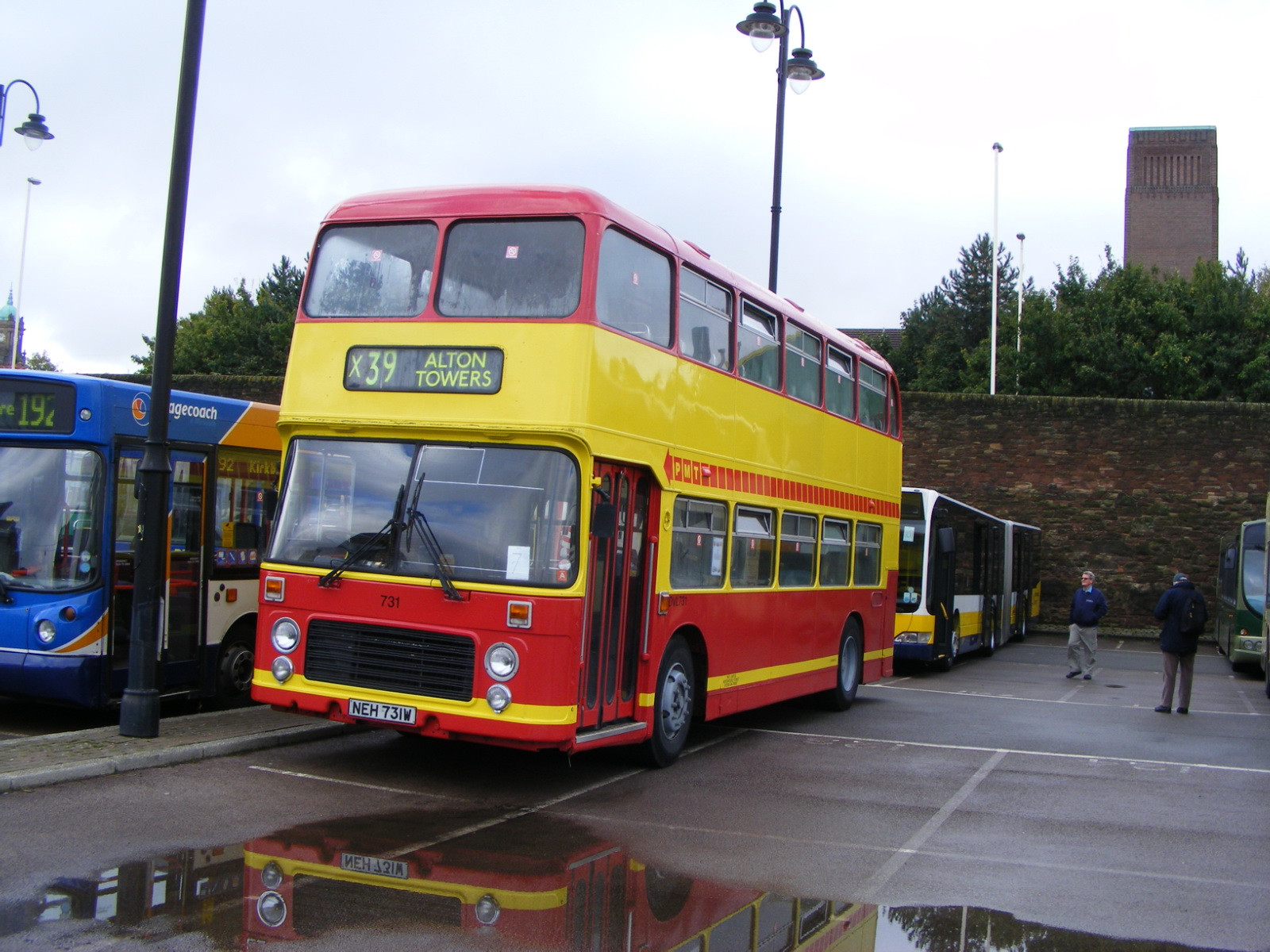 Potteries Motor Traction 731 (NEH 731W), a Bristol VRT/ECW, seen at Wirral Bus & Tram Show 2008.